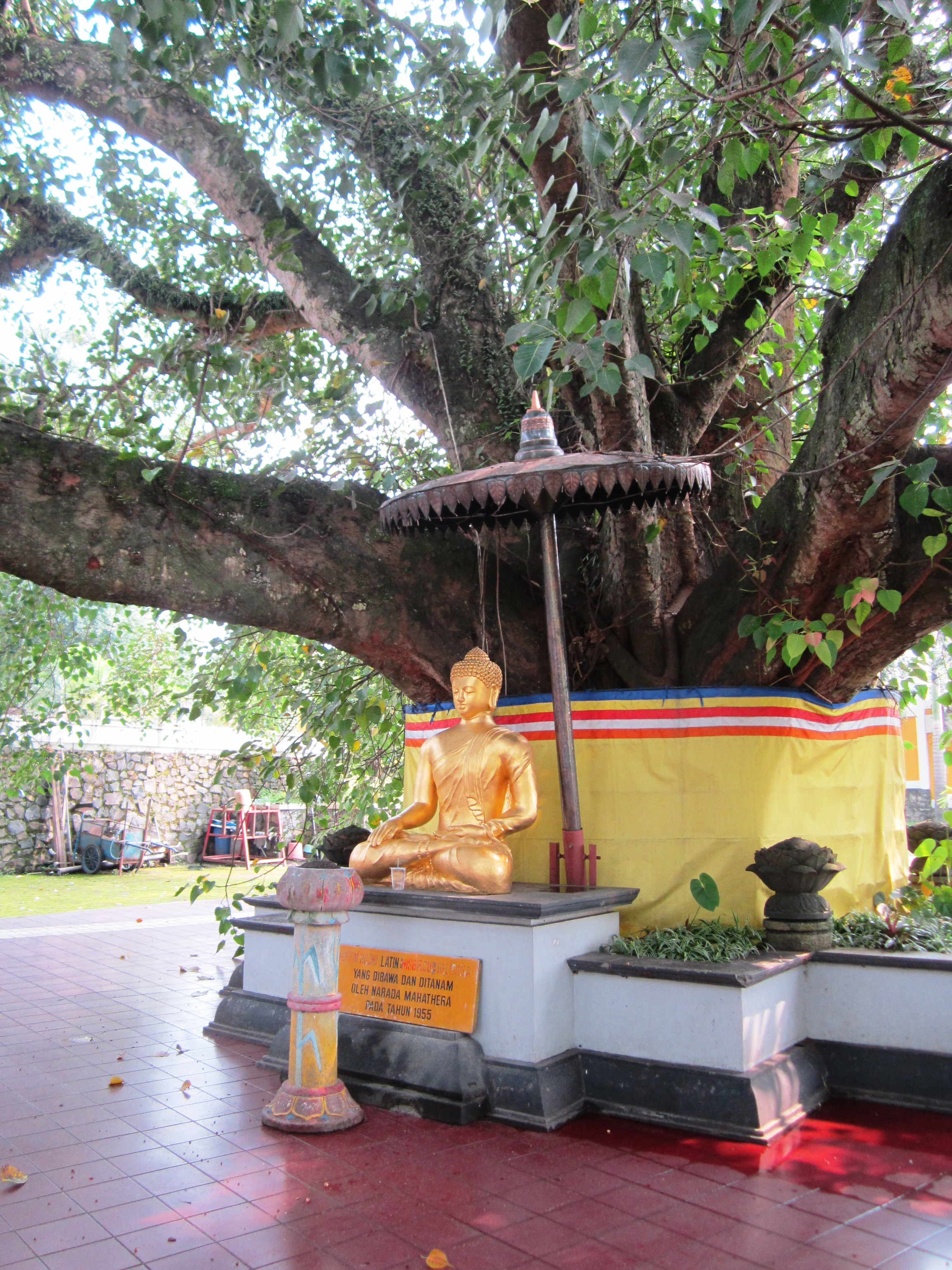 Bodhi Tree in Pagoda Avalokitesvara, Central java, Indonesia. It was brought and planted by Narada Mahathera in 1955.